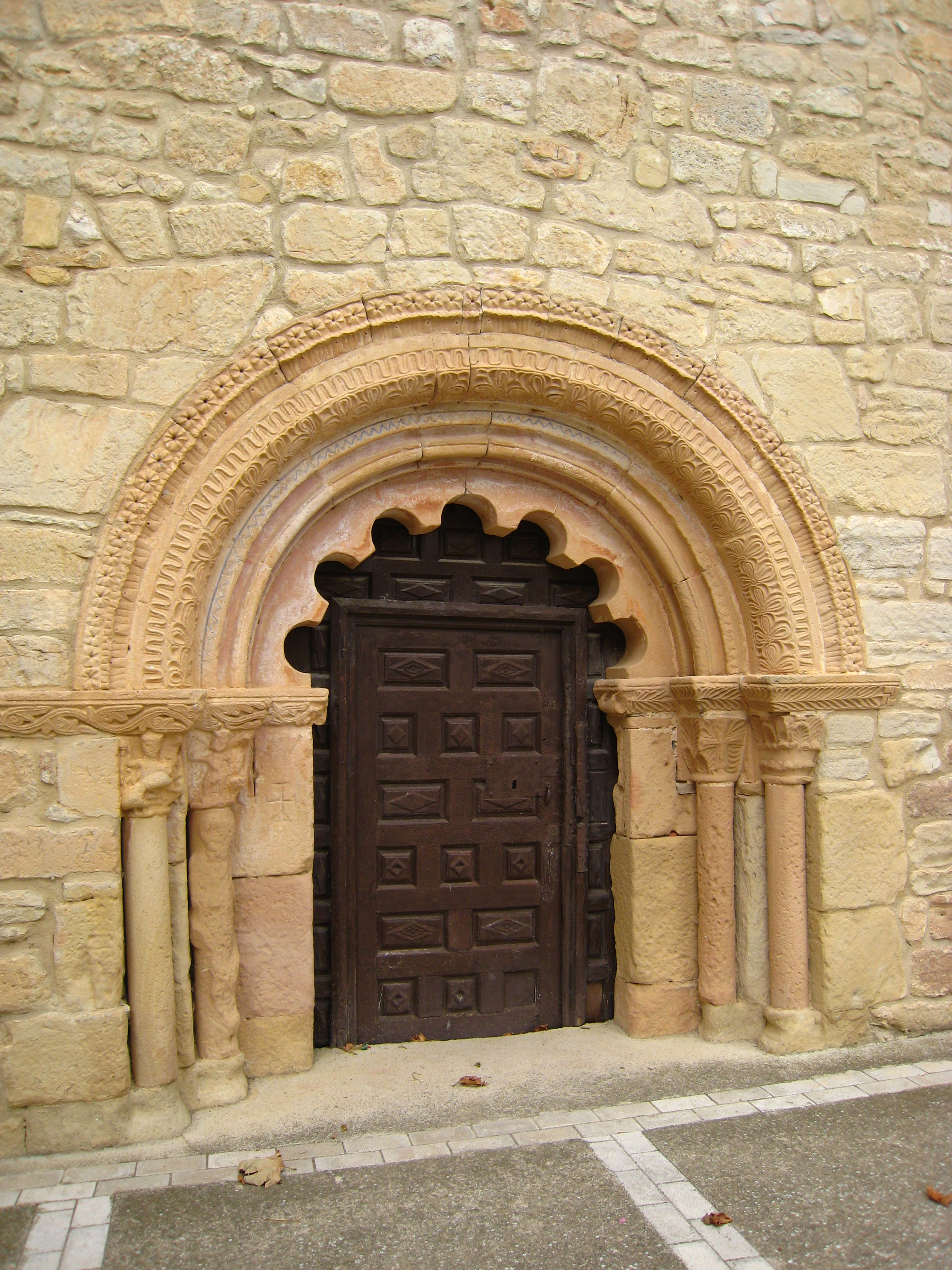 Romanesque church at Bozoo, Burgos (Spain). Portico.